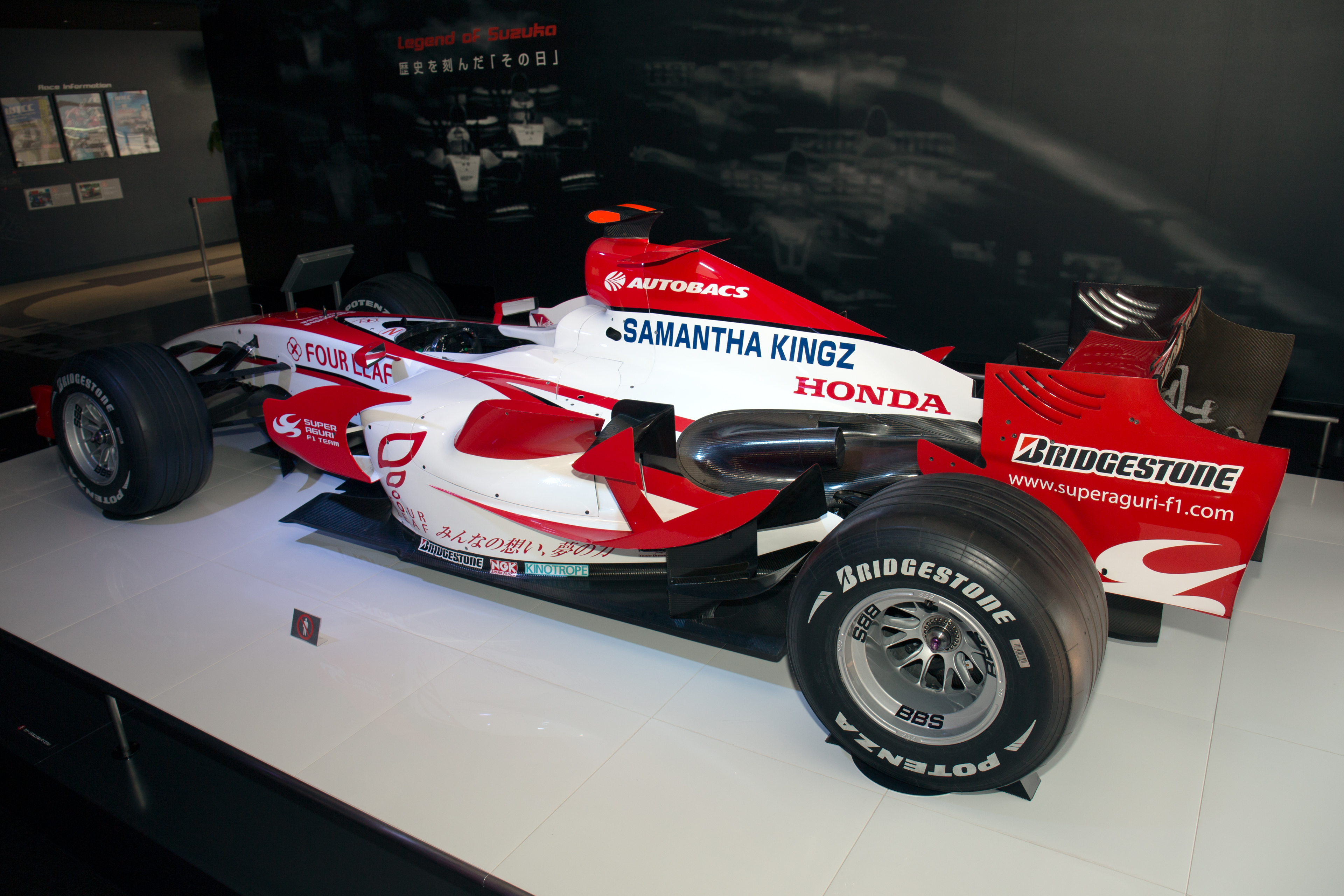 2007 Super Aguri SA07